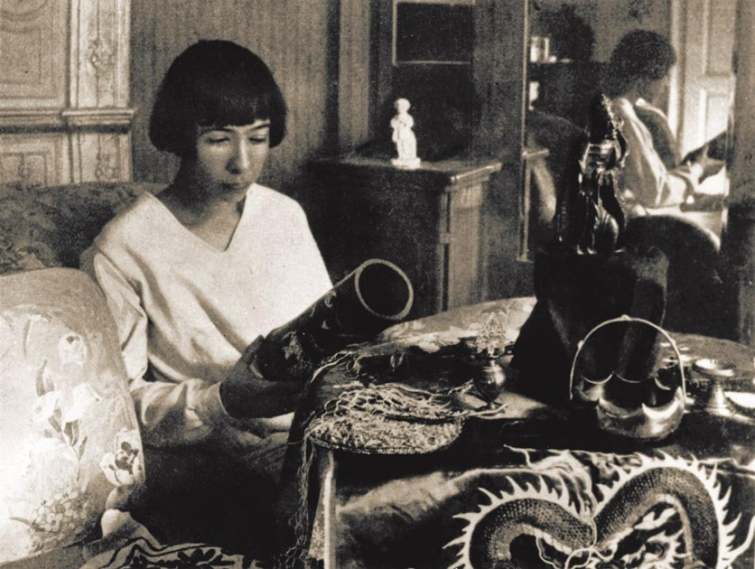 Alma Karlin (1889-1950)